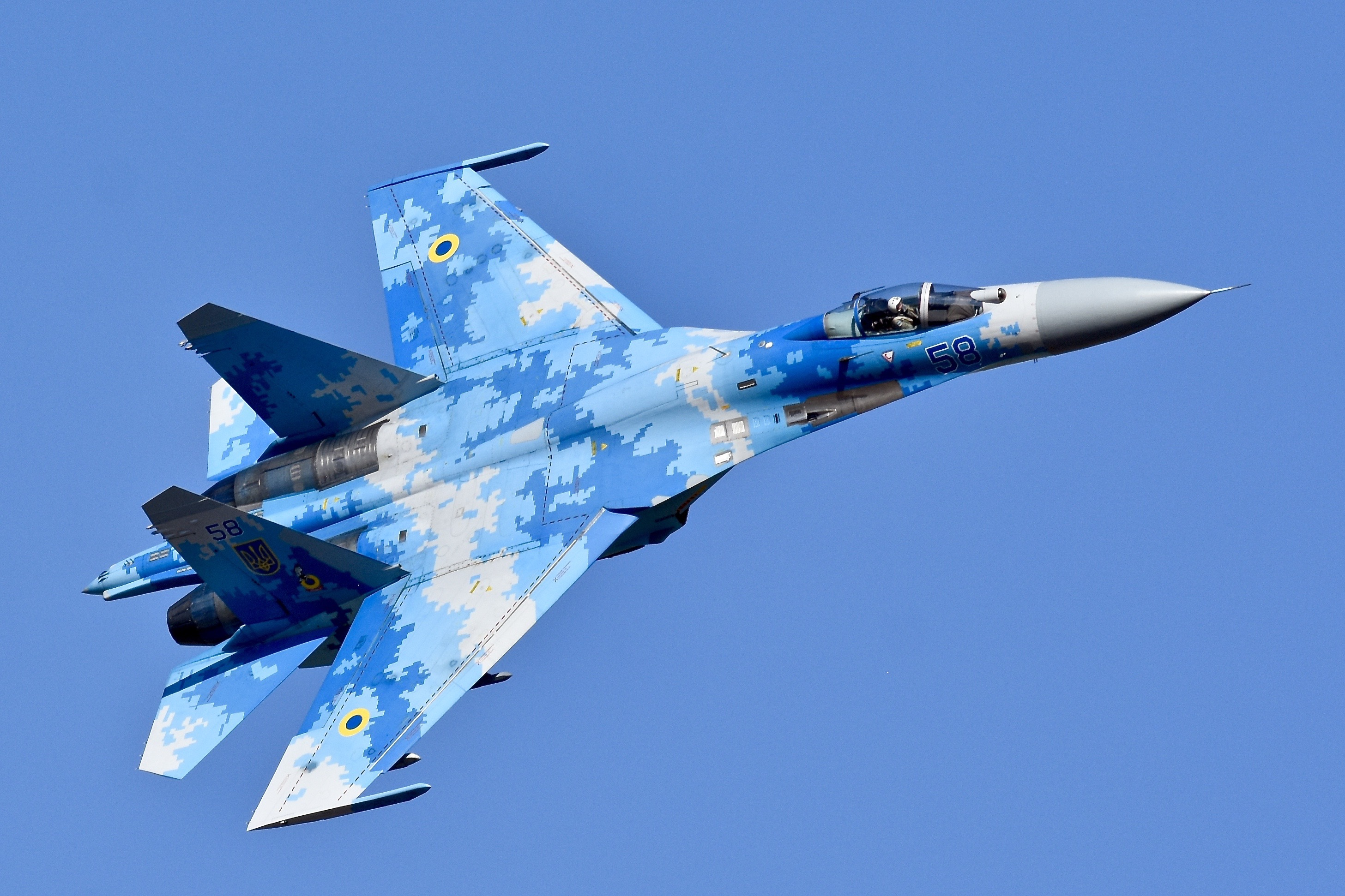 A real star of the show, the Ukrainian Su-27 Flanker commanded the attention of everybody with an exuberant display showing off this powerful heavyweight to great advantage.